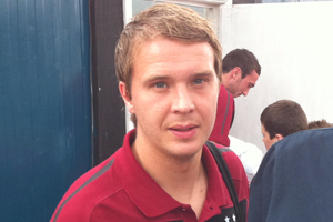 Photo taken by myself following a friendly match between Tamworth and Aberdeen.